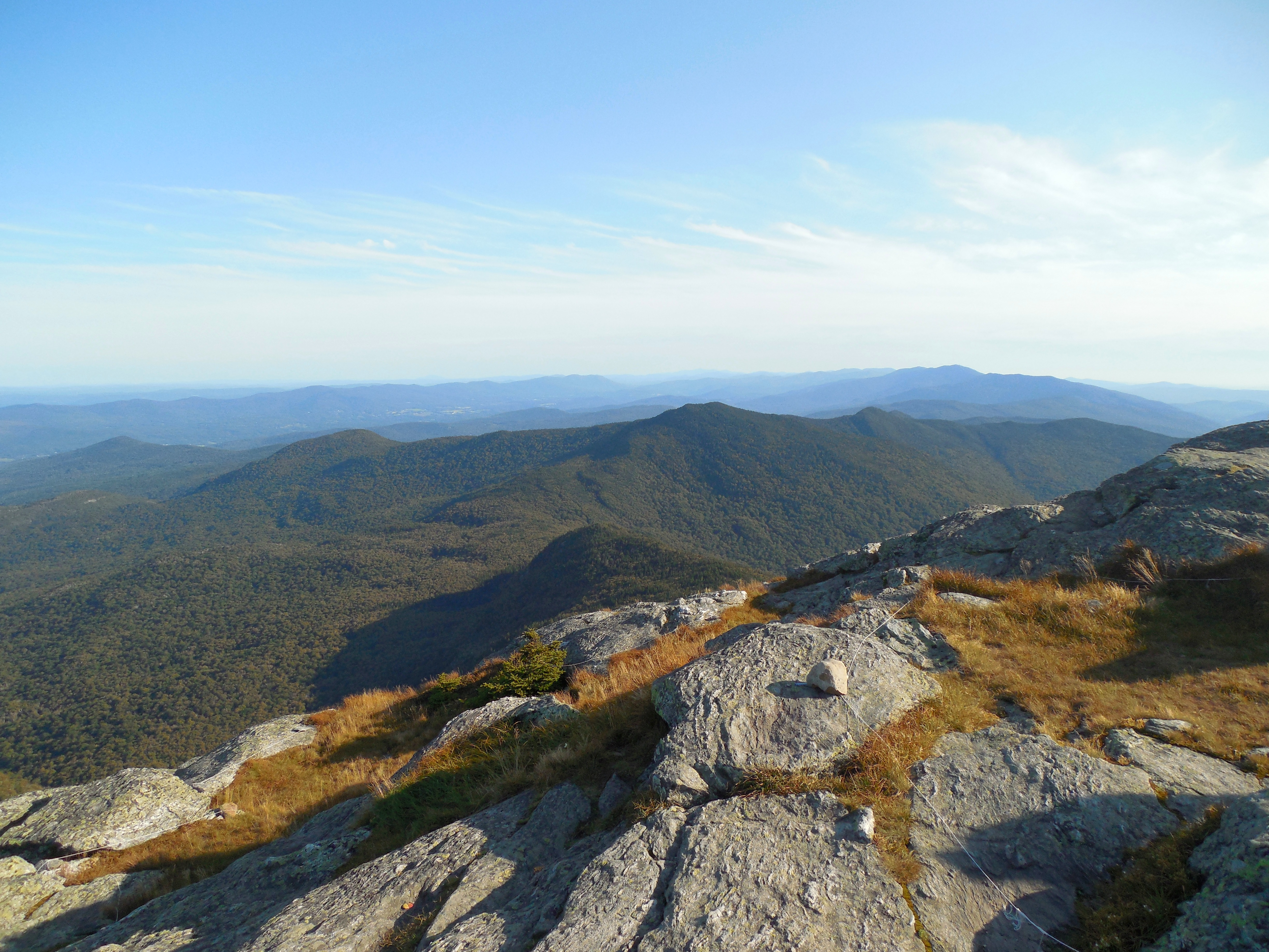 View of Mount Ethan Allen from Camel's Hump Mountain summit in Huntington, Vermont, 2017, looking southward. Camel's Hump was designated a National Natural Landmark (NNL) in 1968.